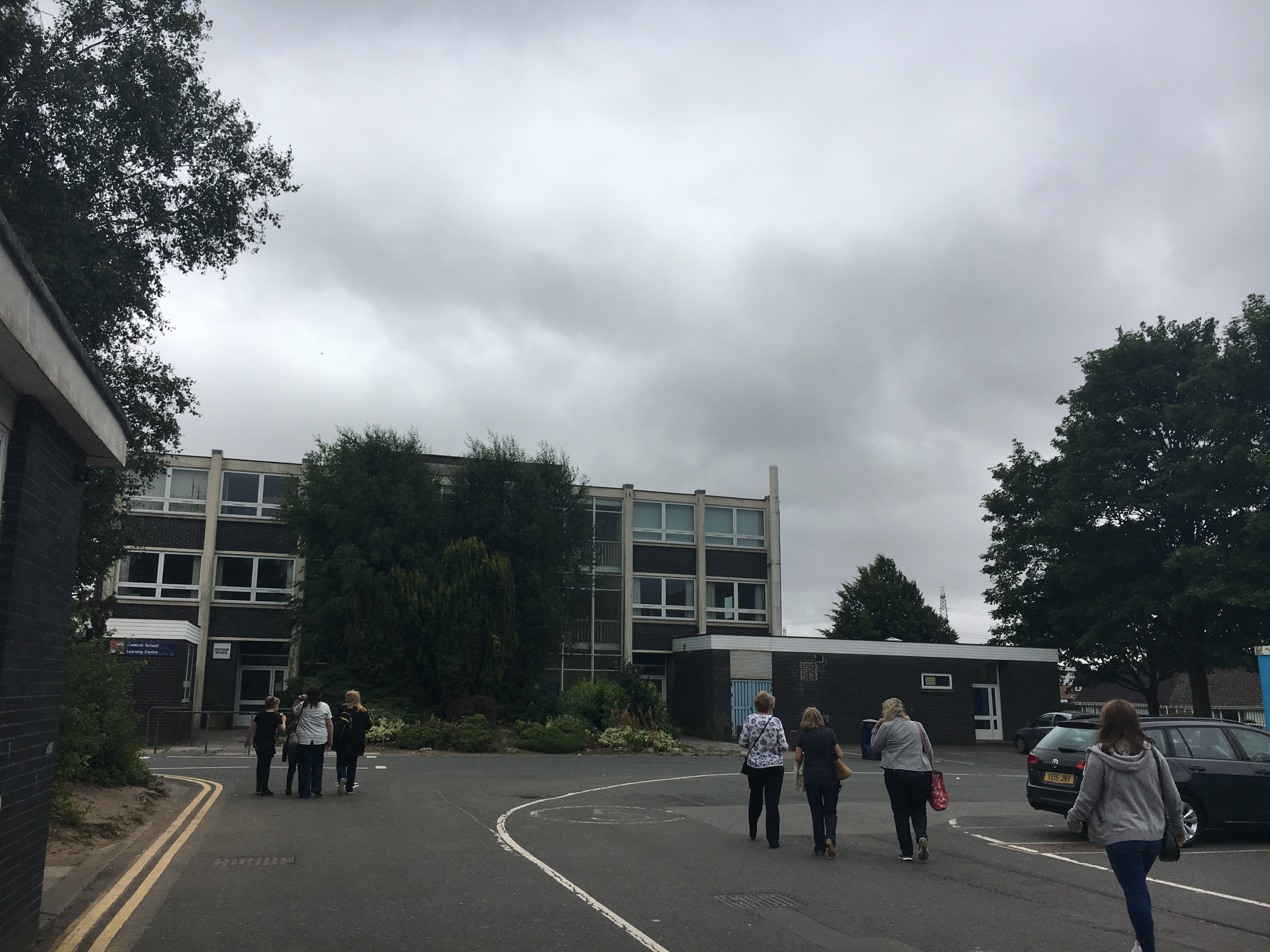 Deepweir Building of Caldicot School at the school's 2017 summer fete.